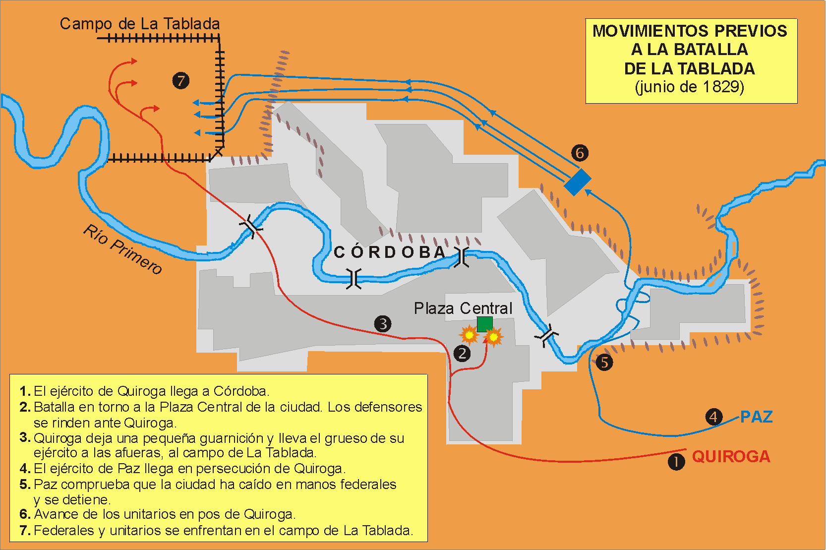 Prelude to battle in La Tablada, near Córdoba (june 1829).